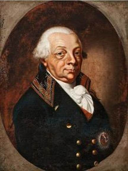 Portrait of Charles Frederick, Grand Duke of Baden (1728-1811)